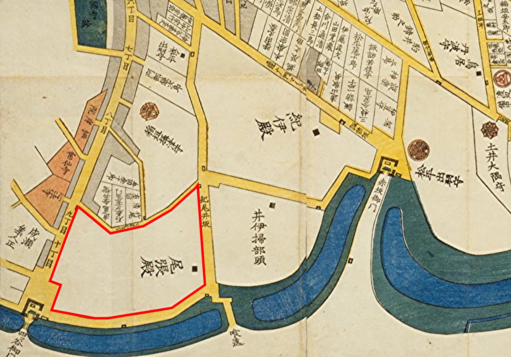 KI-O-I middle residence of Tokugawa Owari